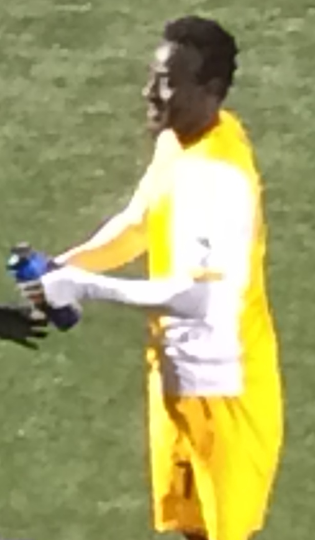 Stephen Okai with Riverhounds during 2015 season opener against Harrisburg City Islanders